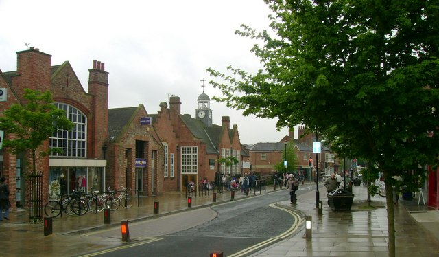 Shops in Acomb